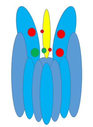 Sigma-1 receptor contains one amine binding site and three hydrophobic pockets.